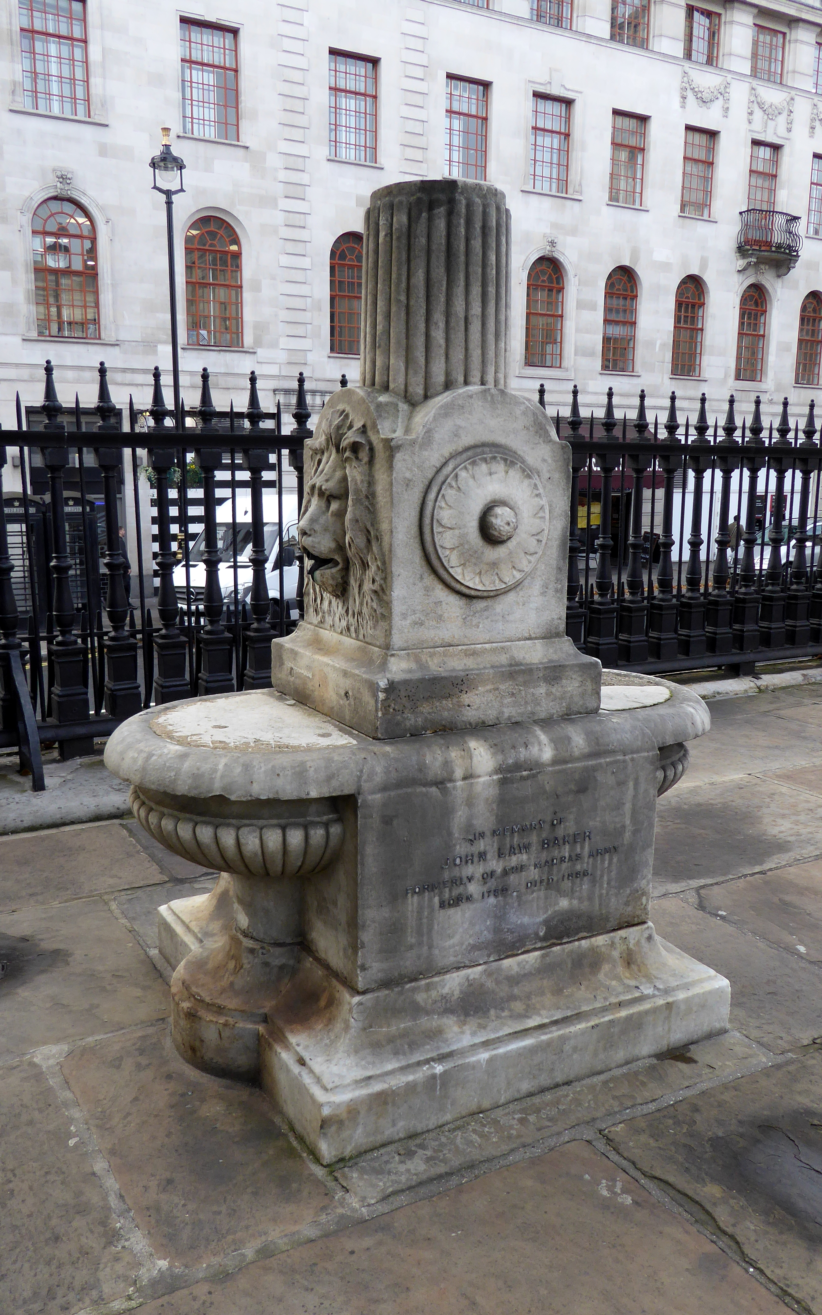 The marble John Law Baker drinking fountain in the churchyard of St Martin-in-the-Fields in the City of Westminster, London.